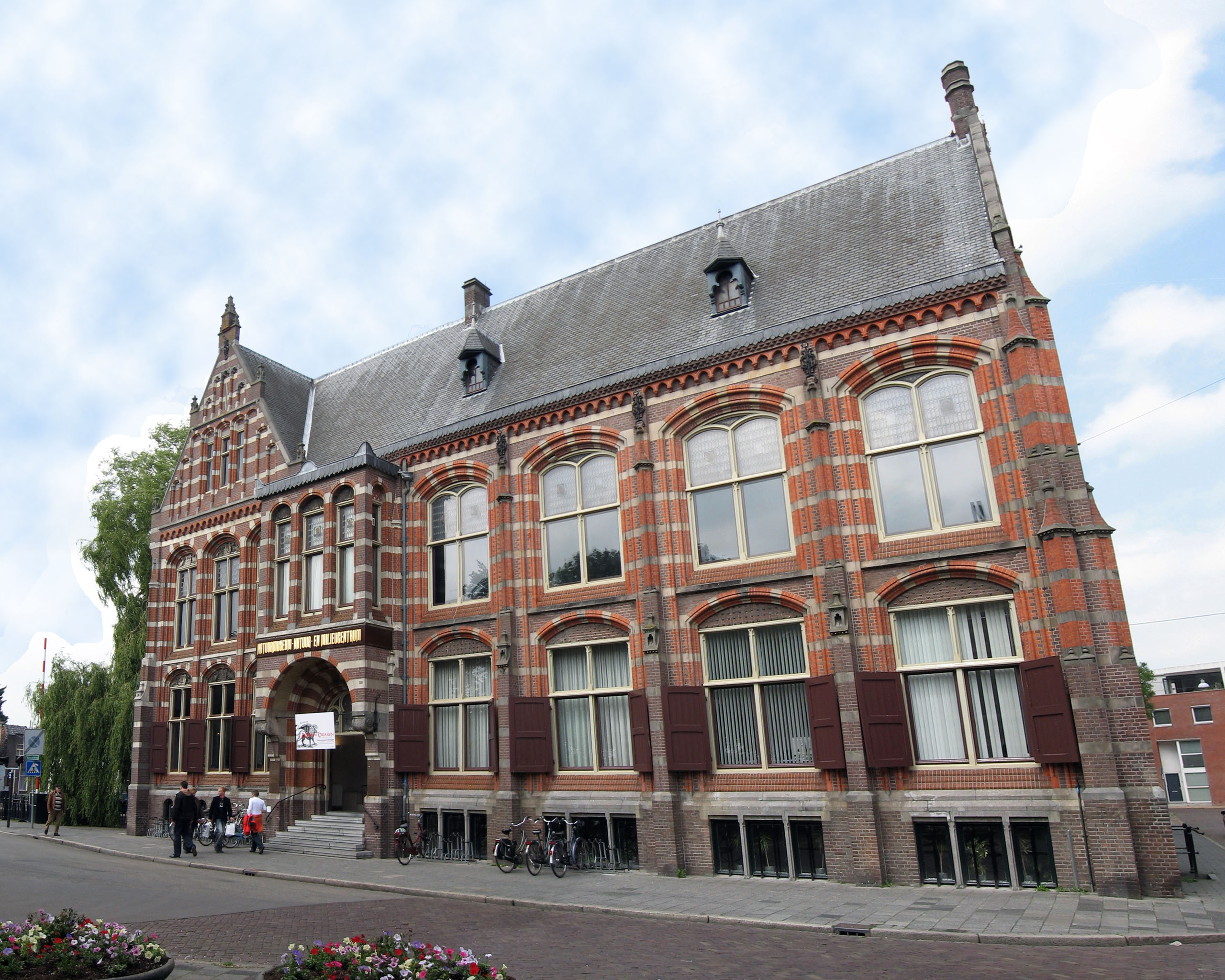 Photo of the nature museum in Groningen